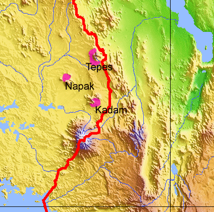 Topographic map of Kenya. Created with GMT from public domain GLOBE data.